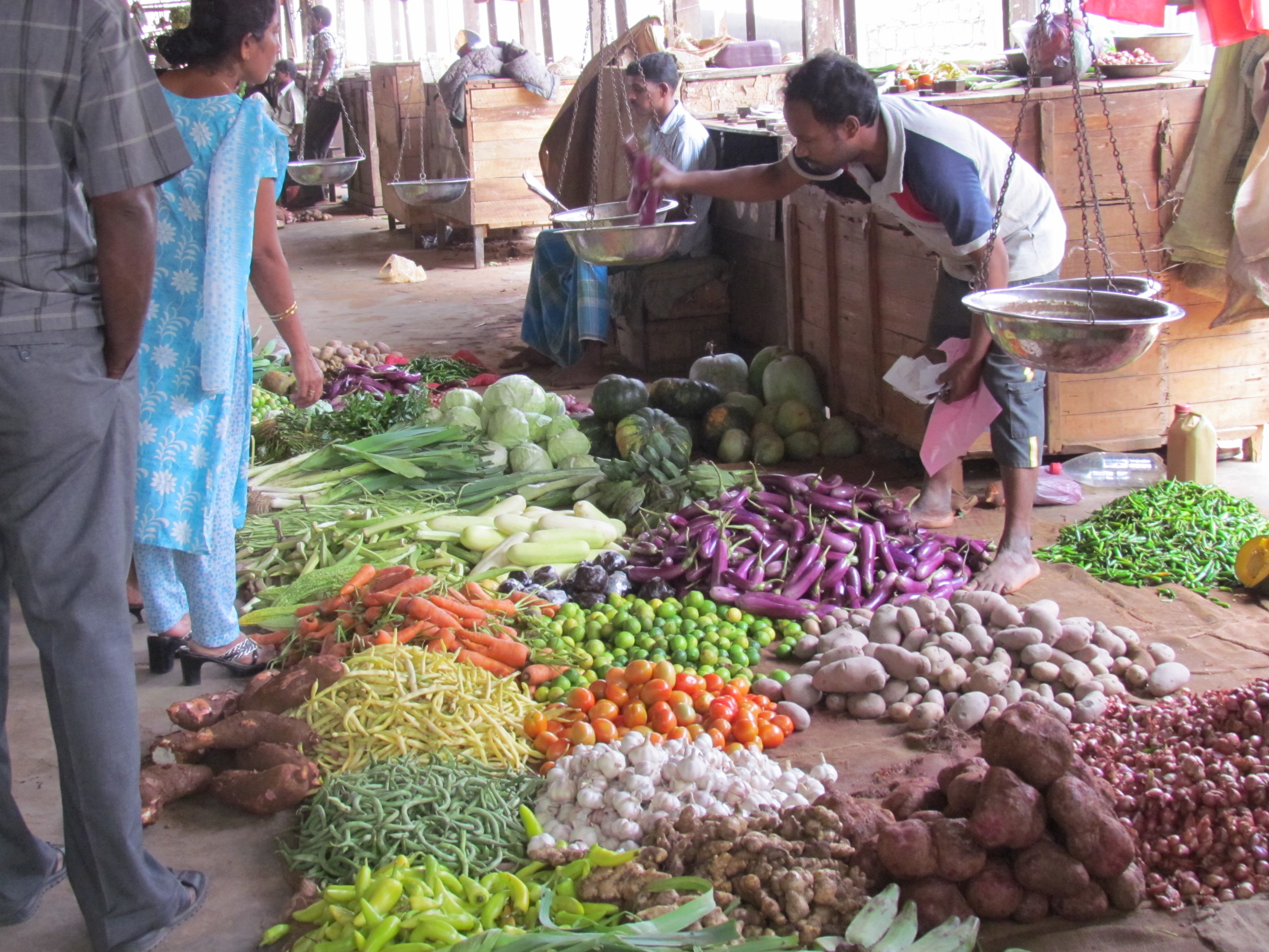 A visit to the market in Jaffna city centre on Tuesday 6 December, 2011.